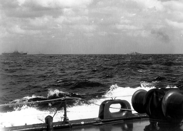 The U.S. Navy aircraft carrier USS Enterprise (CV-6) at left under attack by a Japanese suicide plane, during operations off Okinawa on 11 April 1945. She was hit and damaged on this day, but returned to action in early May following repairs made at Ulithi. At right is USS Oakland (CL-95), which is opening fire on the diving plane. Note tracer shells streaking across the upper part of the image.